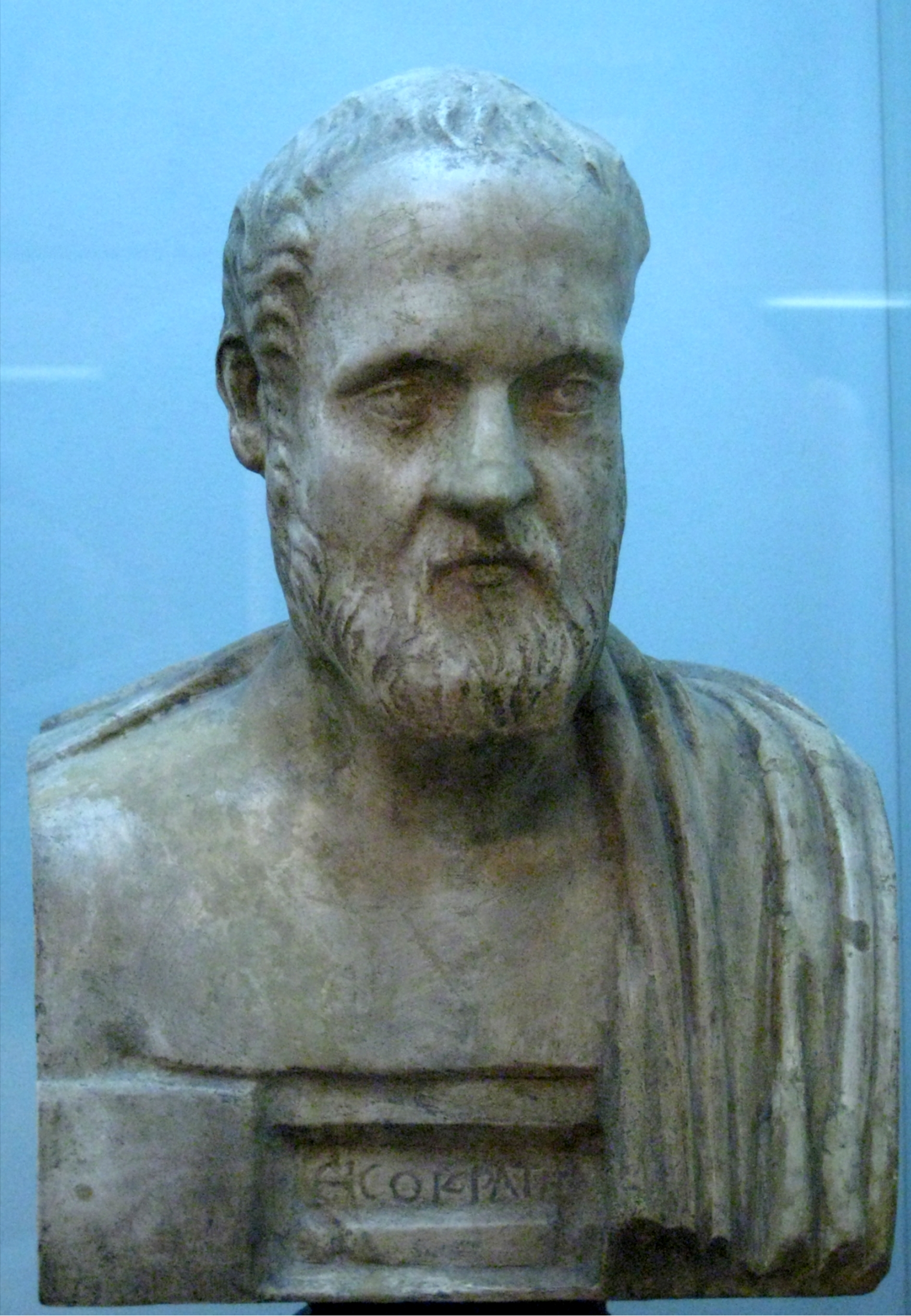 Herma of Isocrates